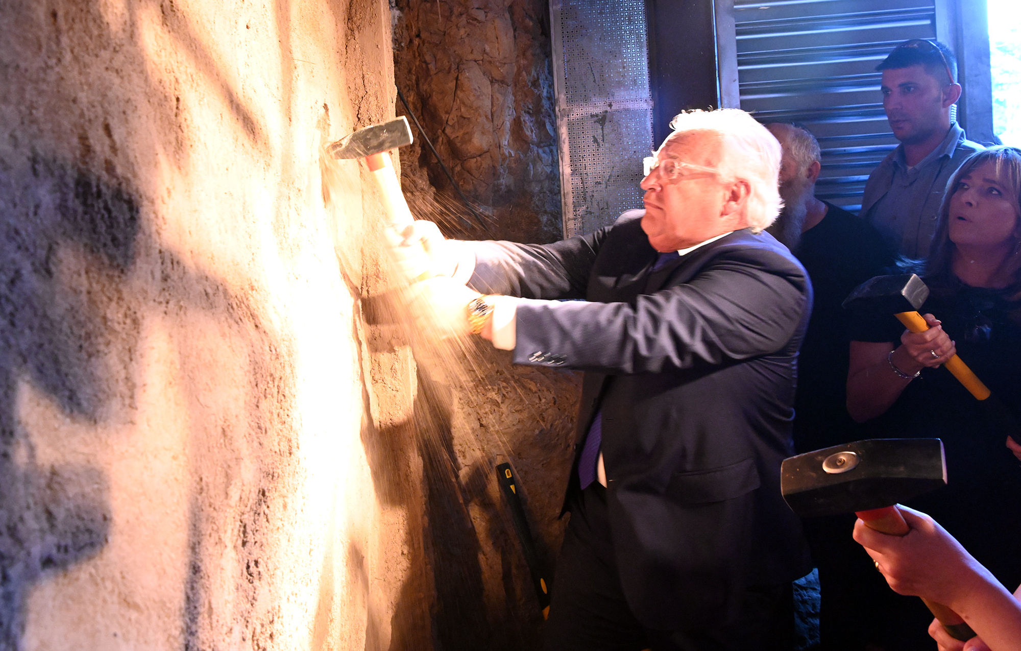 US Ambassador David Friedman and US Middle East special envoy Jason Greenblatt attended the inauguration of Pilgrimage Road in the City of David, Jerusalem June 30, 2019